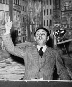 Paul Marion (1899-1954) speaking at the first meeting of the Parti populaire français at the Saint-Denis Municipal Theatre in 1936.